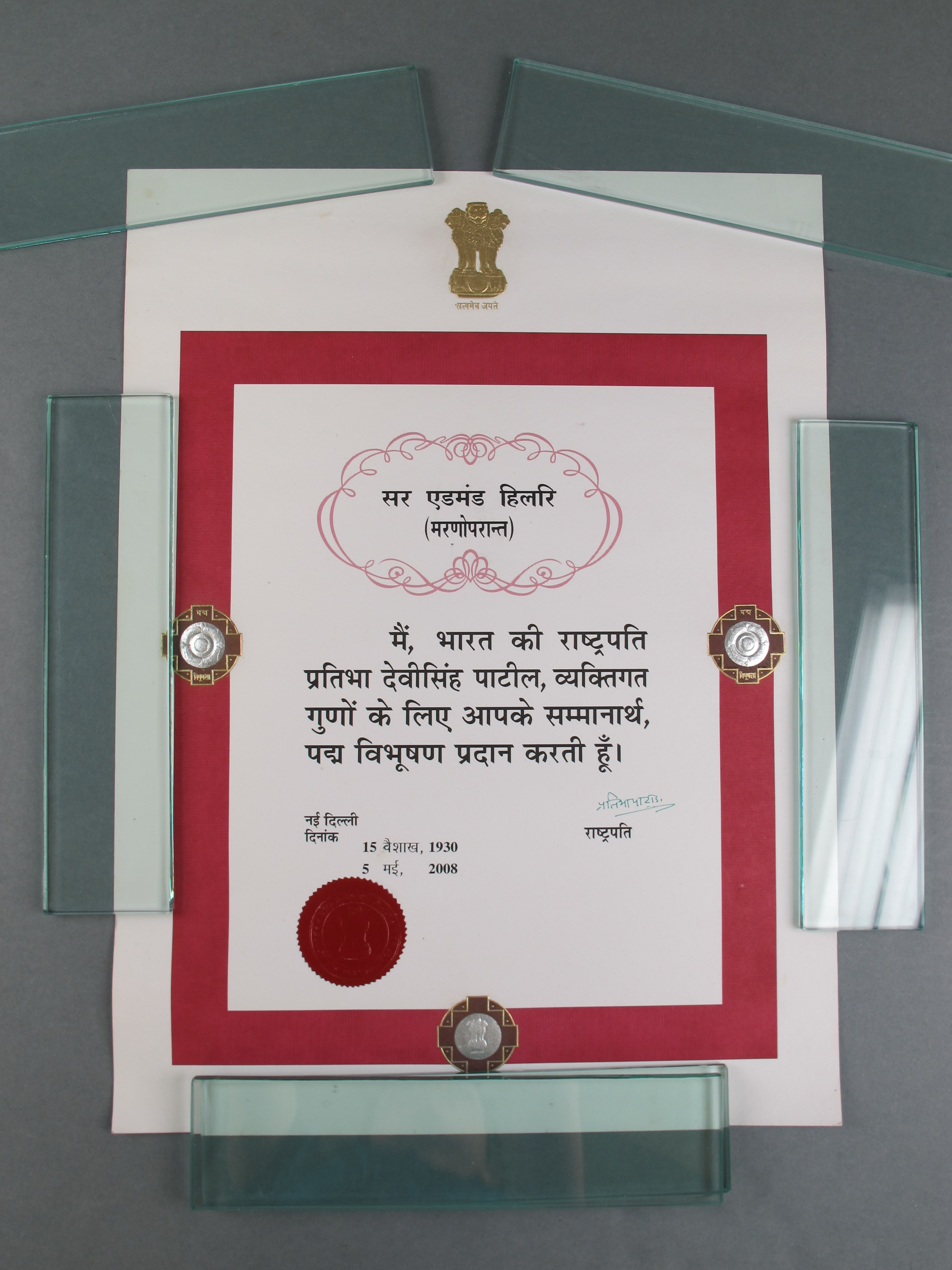 Republic of India- The Padma Vibhushan - Decoration of the Lotus Breast badge, heavy metal cross in gilt and silver with a frosted dark green finish. Associated material is a paper scroll (certificate) in a decorated cardboard tube, stored in a brown cardboard box.